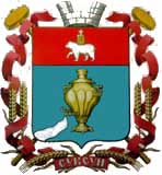 Coat of Arms of Suksunsky rayon, Perm krai, Russia, 2002